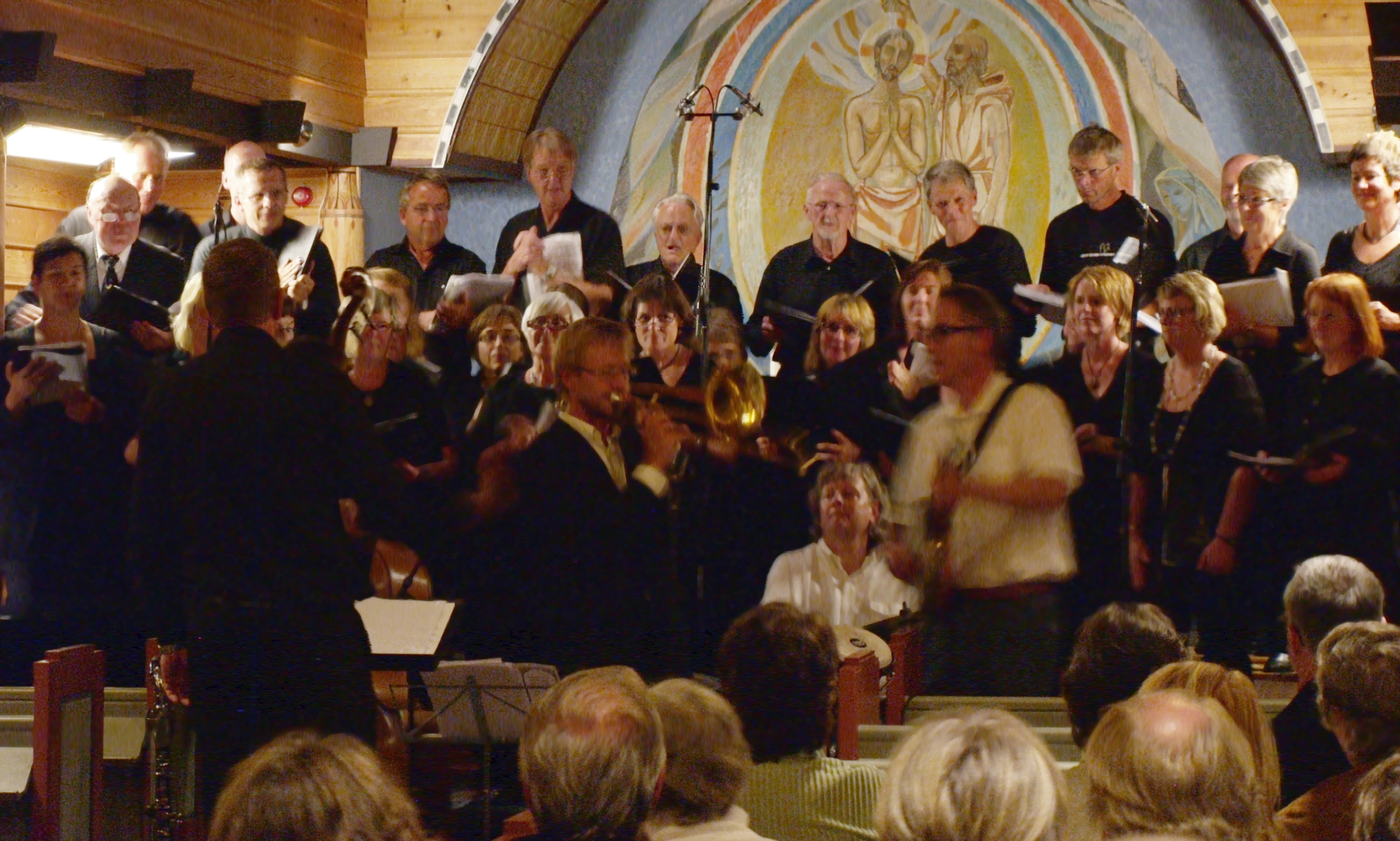 From a jazz concert in Begnadalen kirke. The concert was a coproduction between Caledonian Jazzband, Sør-Aurdalkoret and Vestre Slidre songlag. In front from middle left Eystein C. Husebye, Bjørn Olufsen (sitting behind drums), Eyvind Ellingsen.